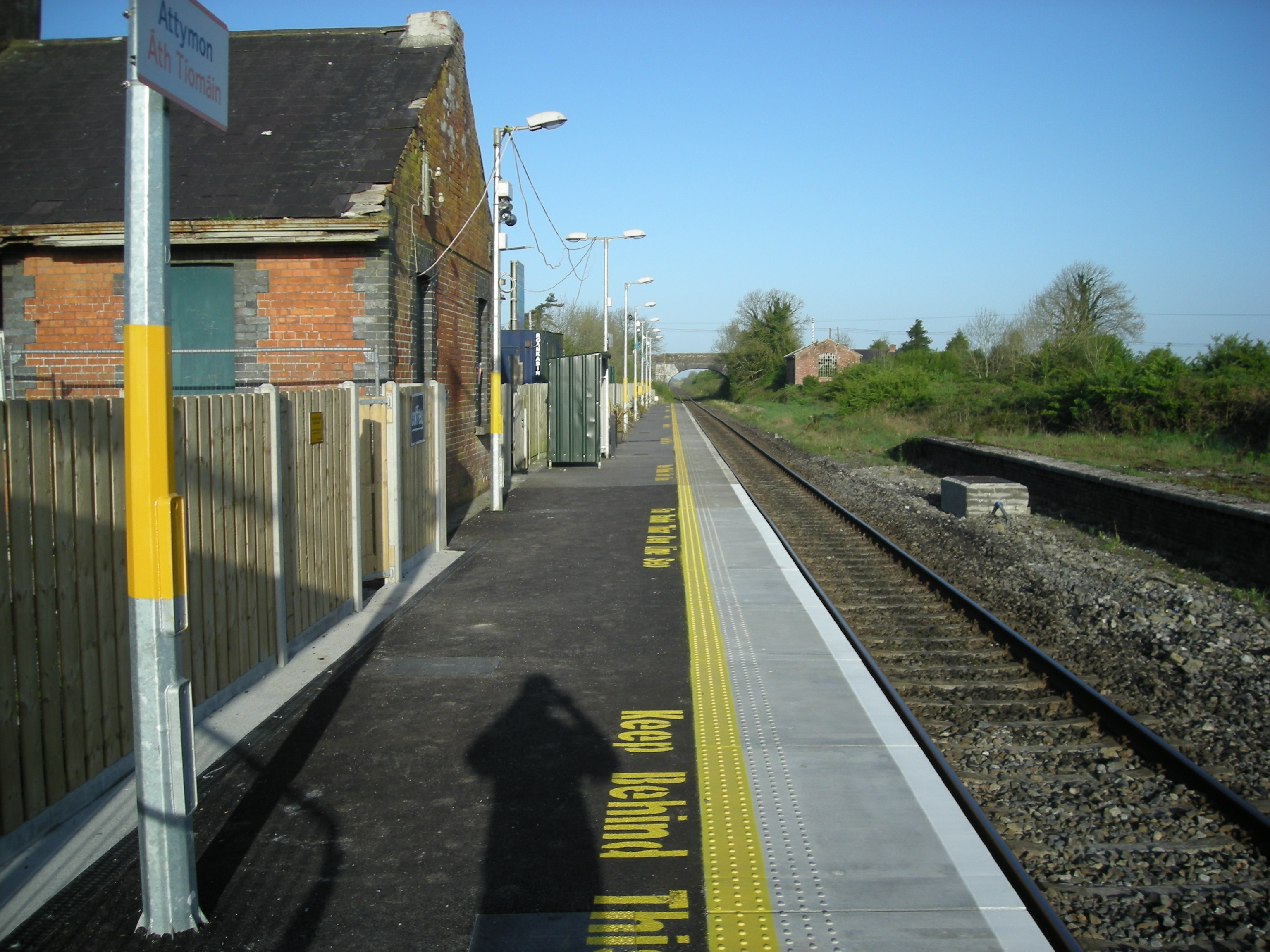 Attymon Railway Station, Co. Galway looking west